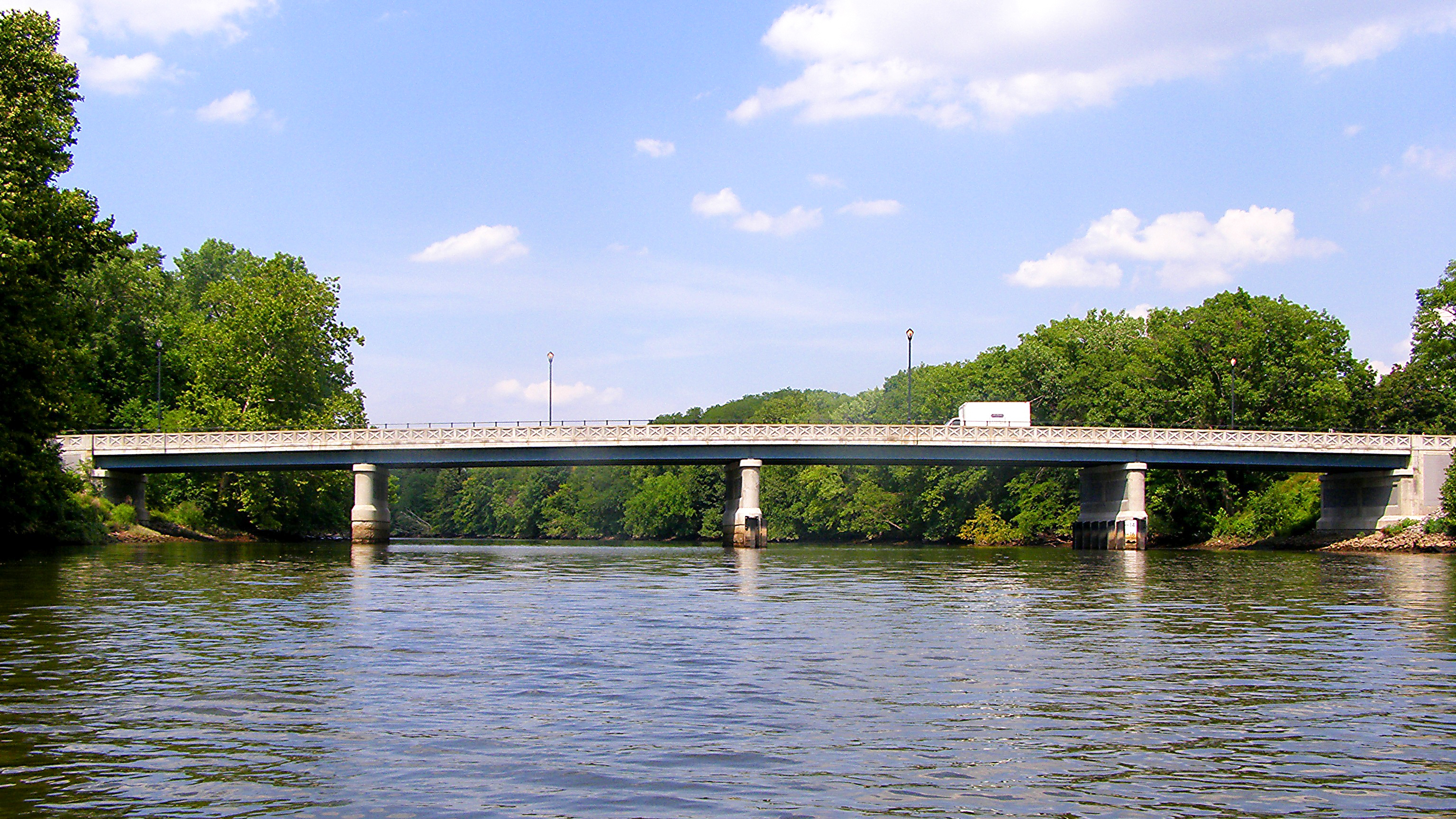 Union Avenue Bridge over the Passaic River, Rutherford - Passaic, New Jersey (looking northeast by kayak)